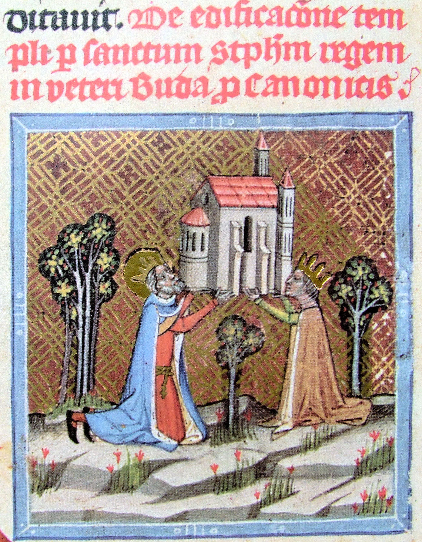 Commemoration on the Foundation of the Church in Obuda